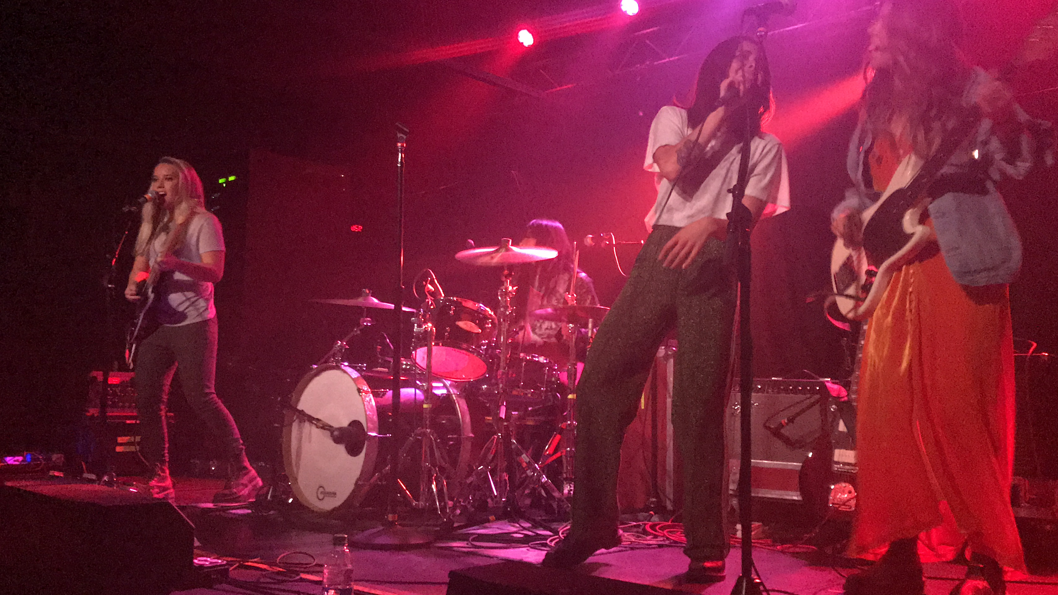 The Aces performing at Brighton Music Hall in Boston, MA on November 13, 2017, on their tour opening for Joywave